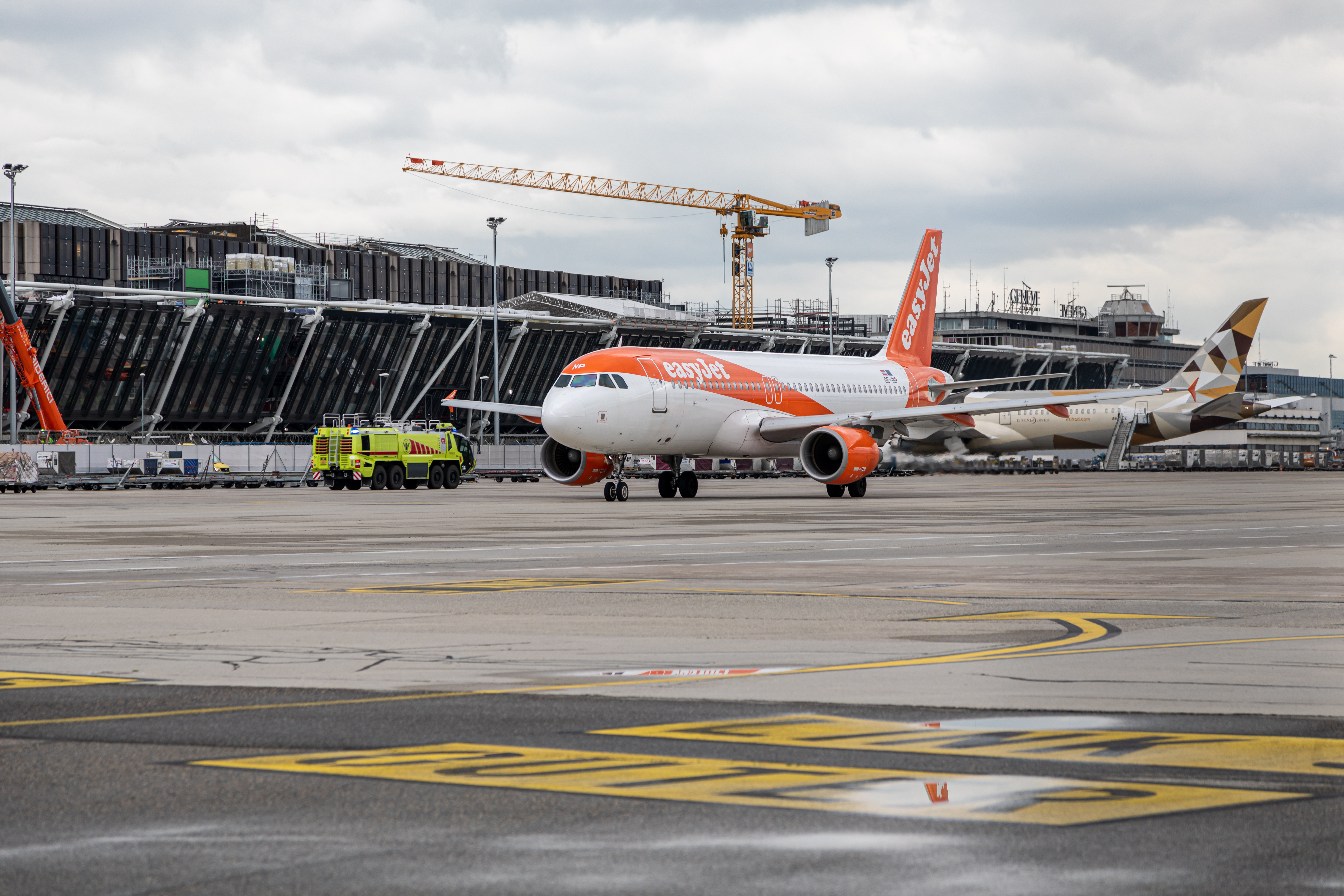 EasyJet Airbus A320 in front of the East Wing construction site at Geneva Airport